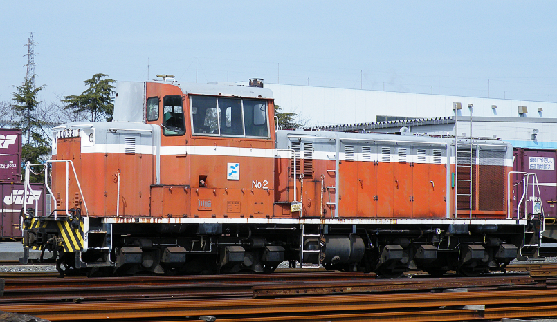 Switcher type D52(No.D521) of Nippon Papar Iwakuni factory.